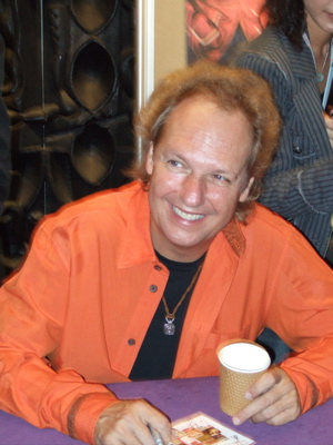 lee ritenour signing autographs in Hong Kong, November 11, 2007